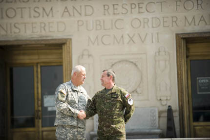 Indiana Adjutant General, Maj. Gen. R. Martin Umbarger, and Slovak Chief of Defense, Lt. Gen. Peter Vojtek, shake hands on the steps of the Indiana War Memorial, Indianapolis.